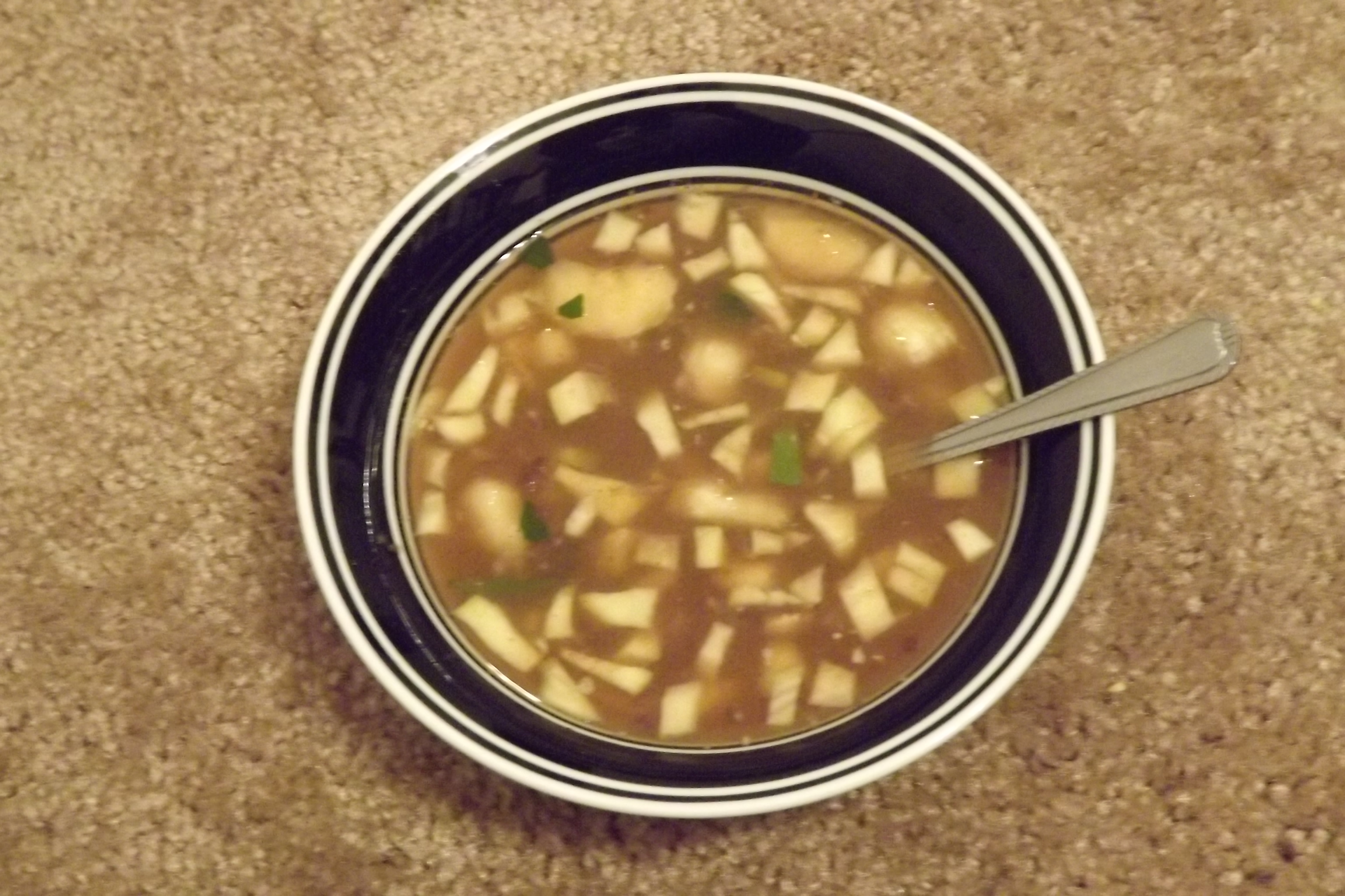 This picture of Ugadi Pachadi was taken at a Telugu home in USA. Since Neem flowers are difficult to obtain in USA, it is seen substituted with Neem leaves. This photograph was taken by me.